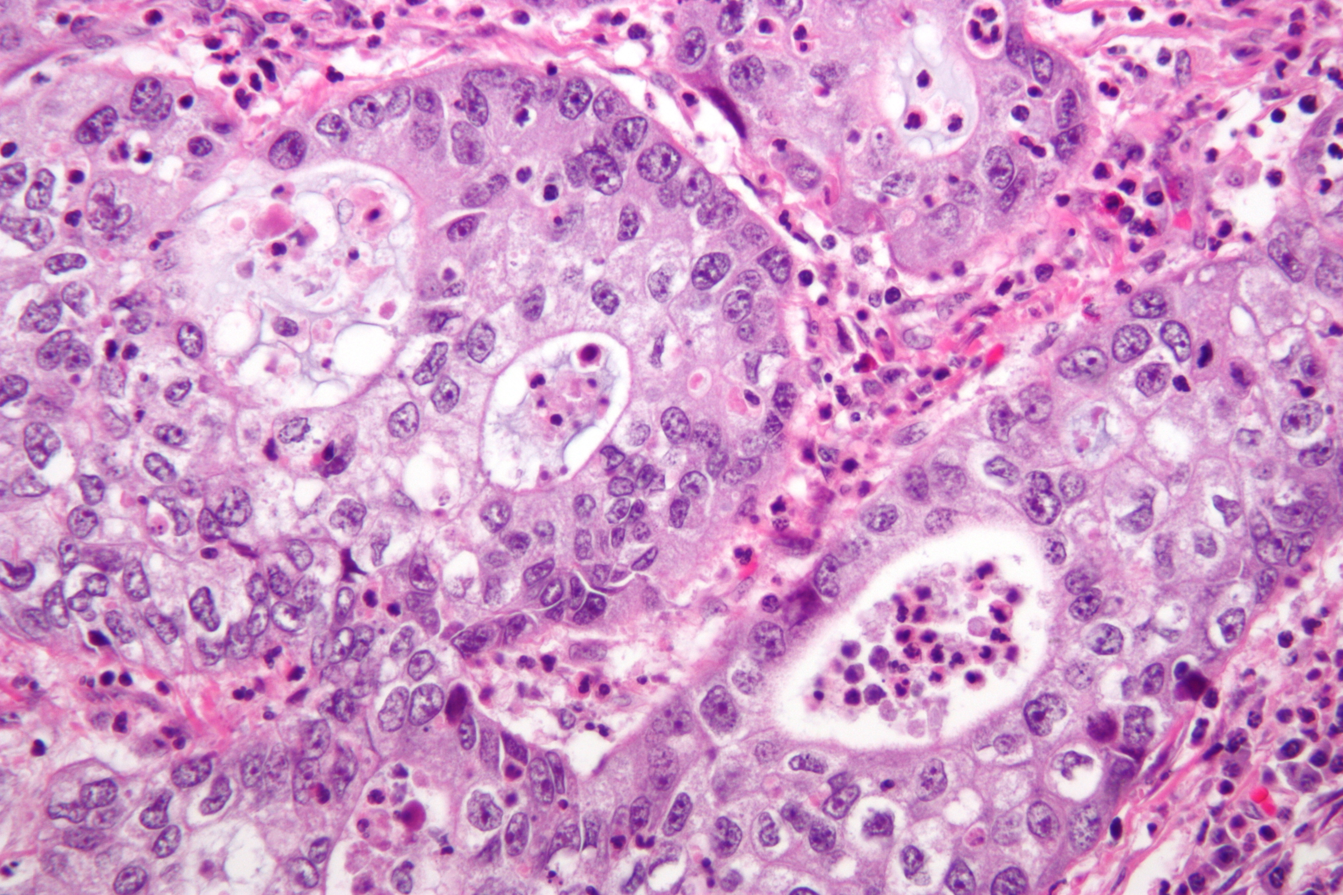 Micrograph of an adenosquamous carcinoma. Uterine cervix. H&E stain. Related images Intermed. mag.